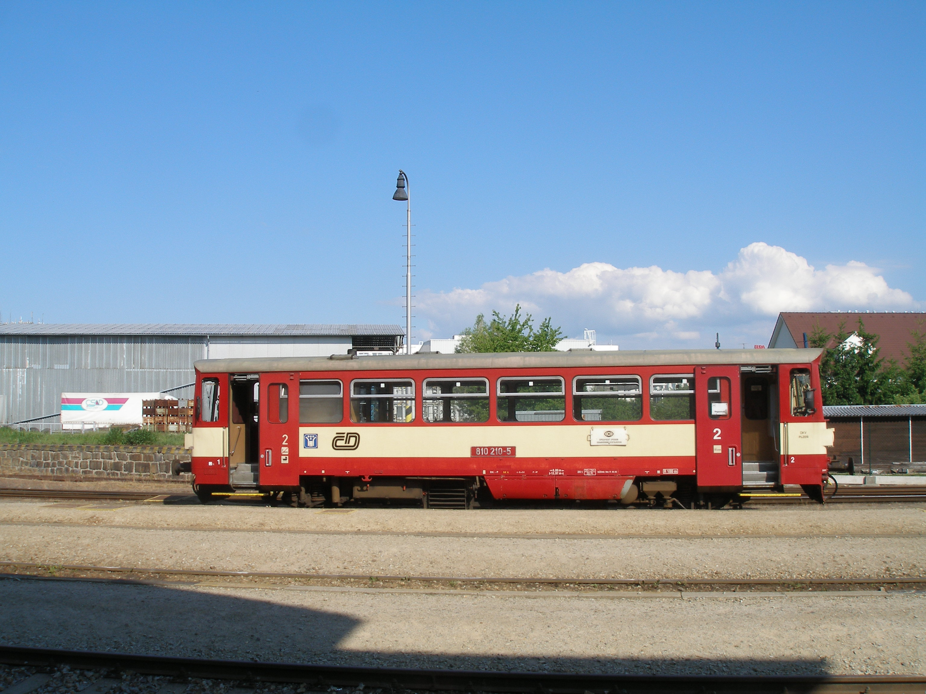 The diesel train type 810 on the railway station in Blatná